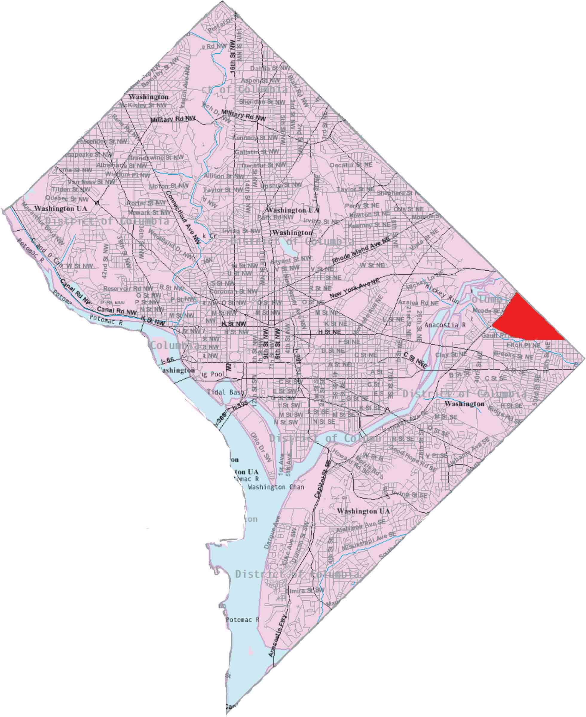 This image is a modified version of a self-generated reference map from the U.S. Census Bureau's American Factfinder at by Wikipedia user Msclguru.